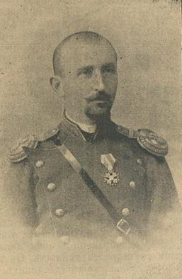 Portrait of SMAC voyvoda Sofroniy Stoyanov